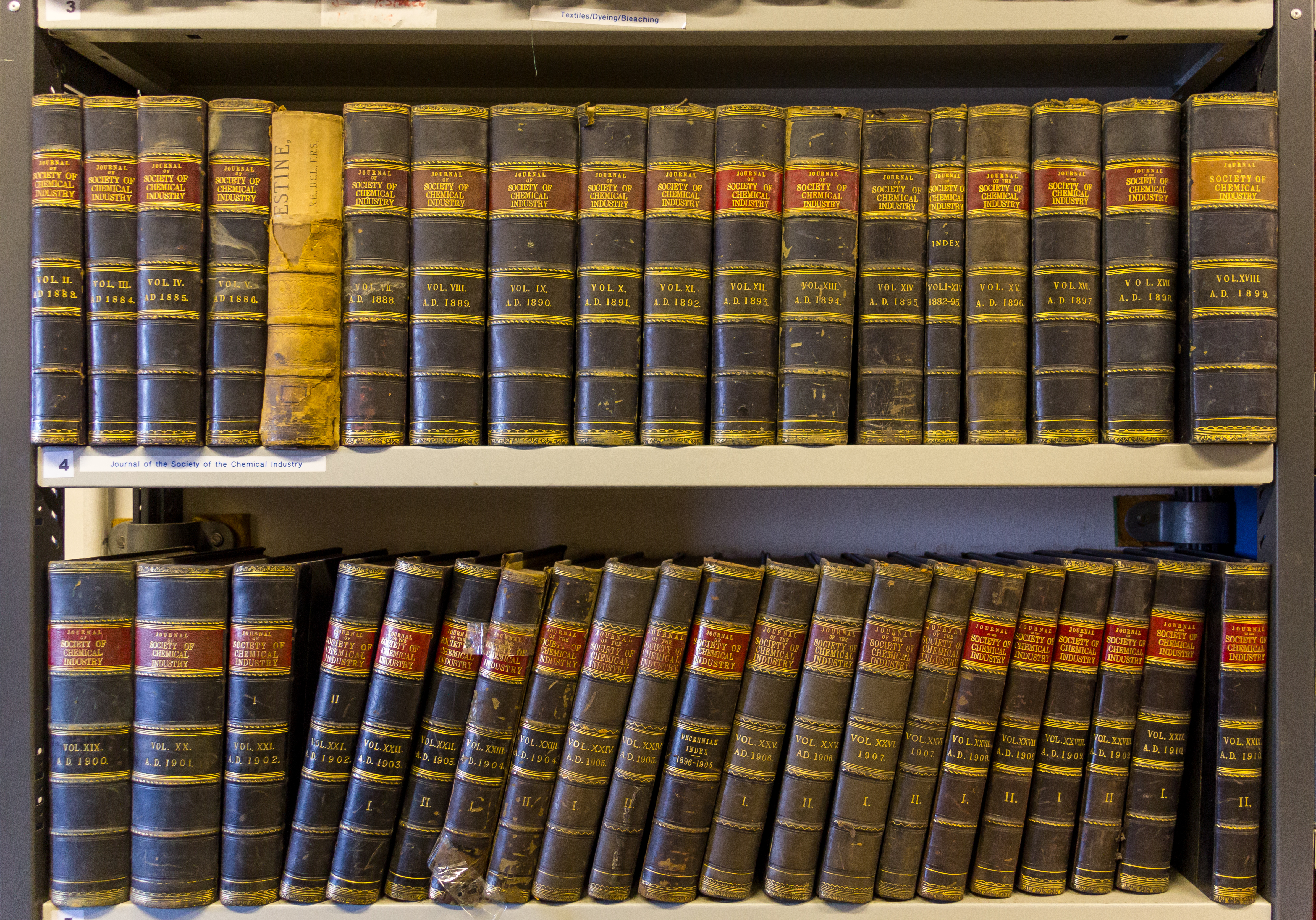 Journal of Society of Chemical Industry volumes. Wikimedia editathon, Catalyst Science Discovery Centre.